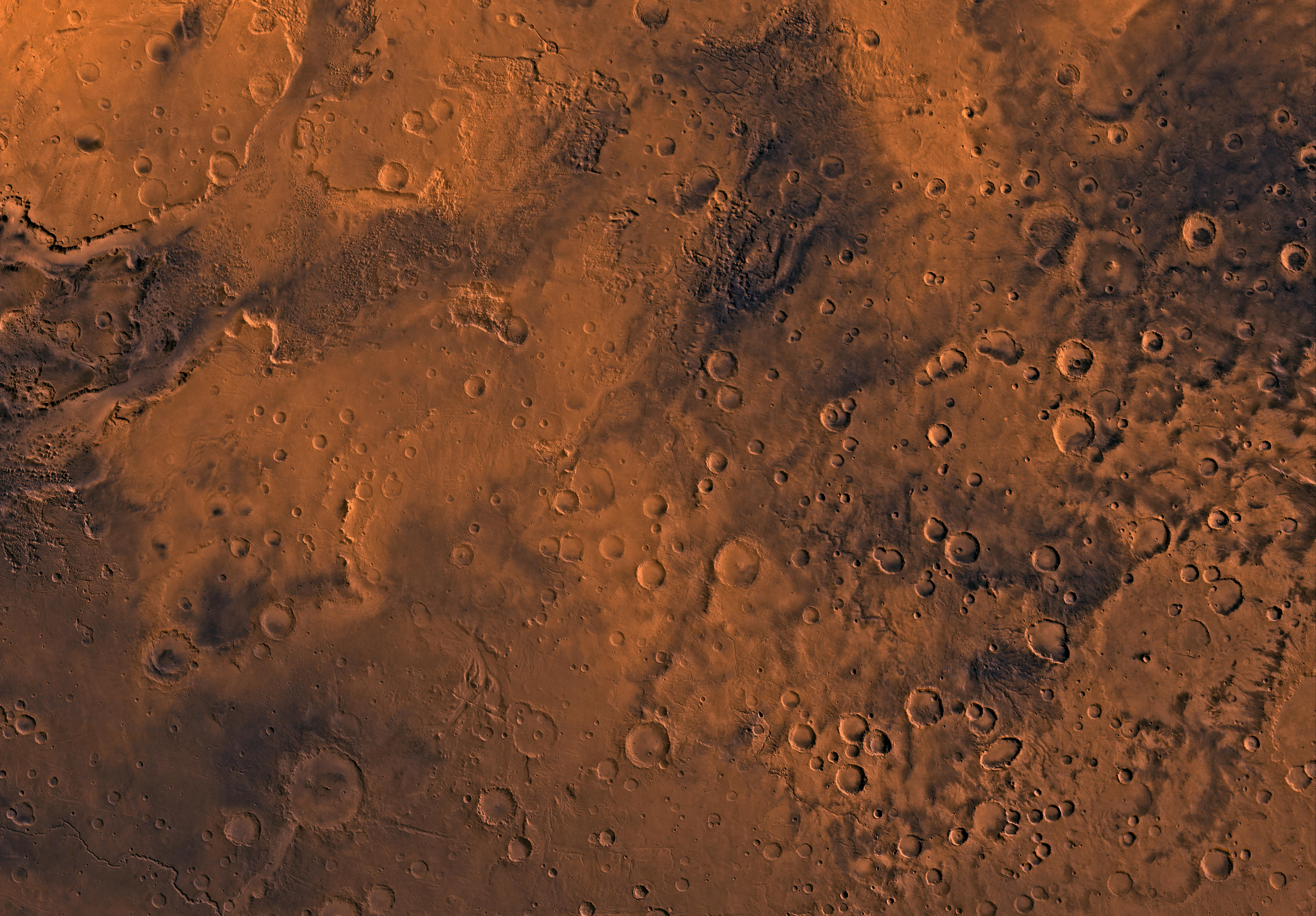 PIA00179: MC-19 Margaritifer Sinus Region Mars digital-image mosaic merged with color of the MC-19 quadrangle, Margaritifer Sinus region of Mars. Heavily cratered highlands, which dominate the Margaritifer Sinus quadrangle, are marked by large expanses of chaotic terrain. In the northwestern part, the major rift zone of Valles Marineris connects with a broad canyon filled with chaotic terrain. Latitude range -30 to 0, longitude range 0 to 45 degrees.